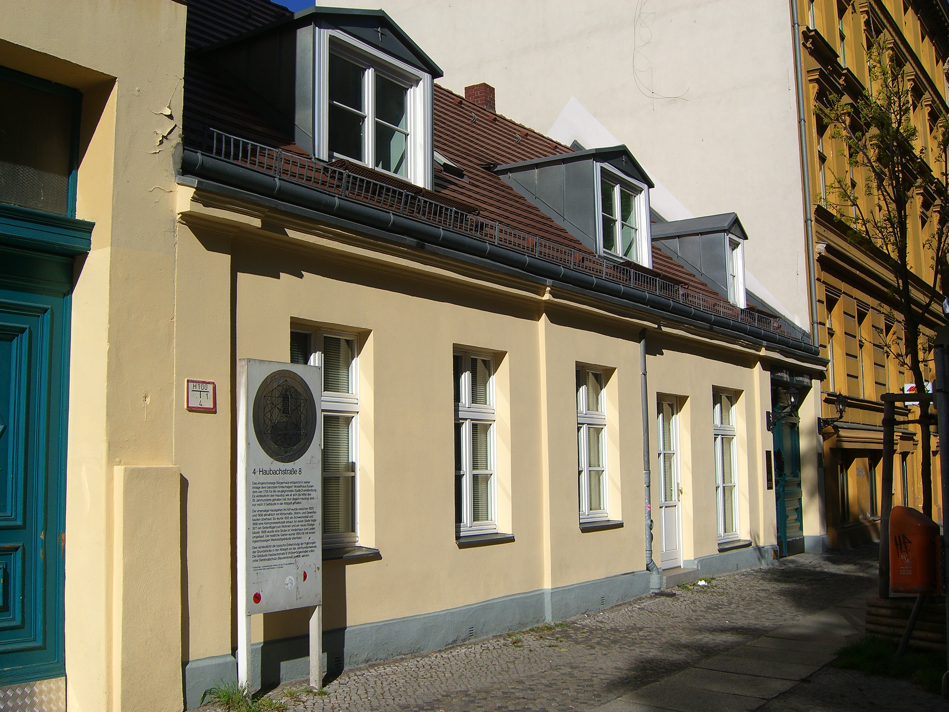 single floor house in Berlin-Charlottenburg according to the directions of Eosander von Göthe